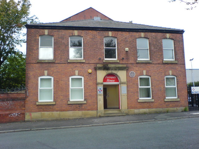 Ferranti House On Wickentree Lane, Hollinwood. Now occupied by a market research company, Ferranti House was the headquarters of Ferranti Ltd, a major UK electrical engineering company known mainly for defence electronics, power grid systems and computer development. Sebastian de Ferranti relocated his company here in 1897 when it outgrew its original London premises. The company closed down in 1994 after over 100 years of innovation in several "high tech" sectors.